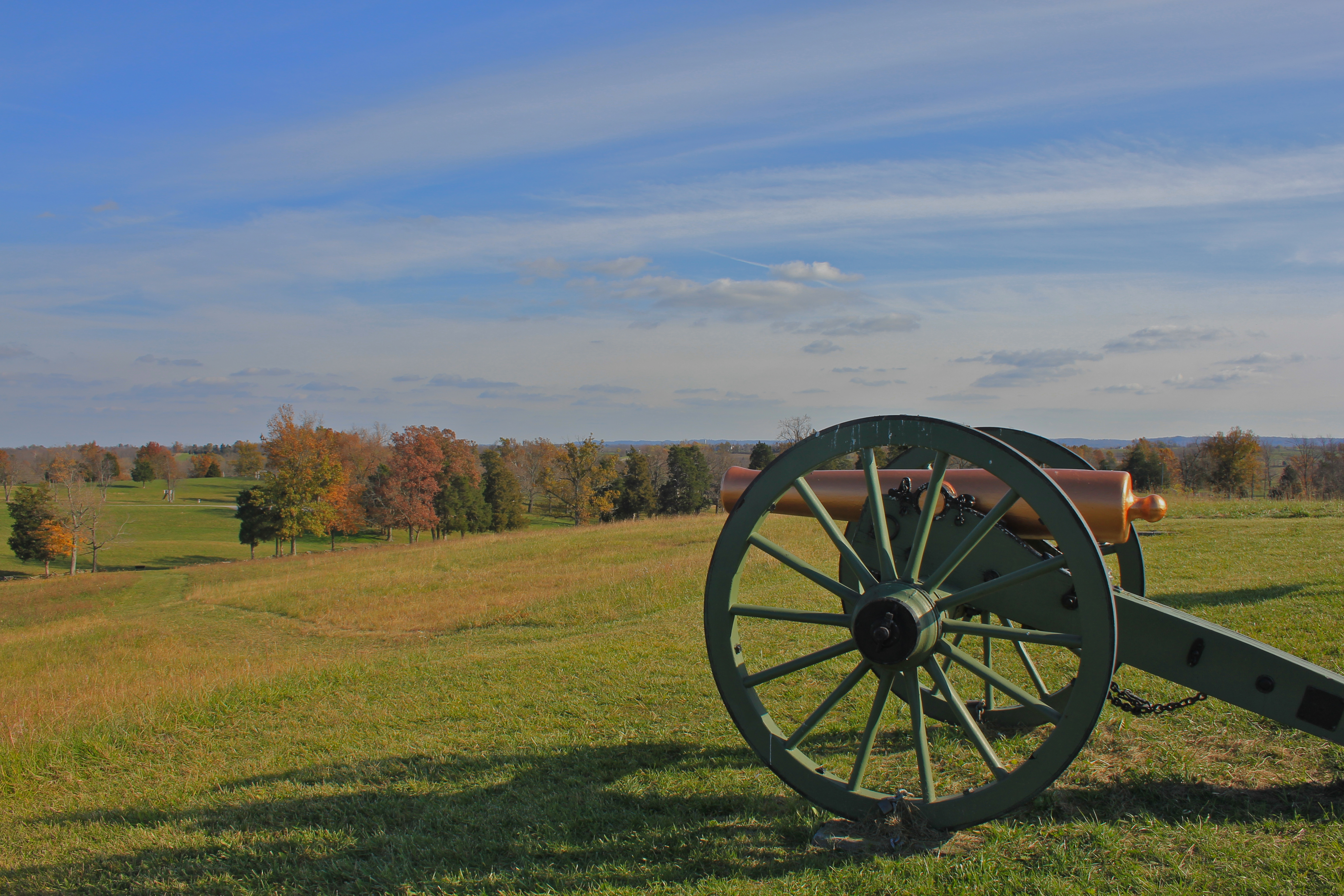 Perryville Battlefield - Perryville, Kentucky. The gun is a 12-pounder Napoleon. Flickr Tags: kentucky perryville perryville battlefield battlefield civil war war.